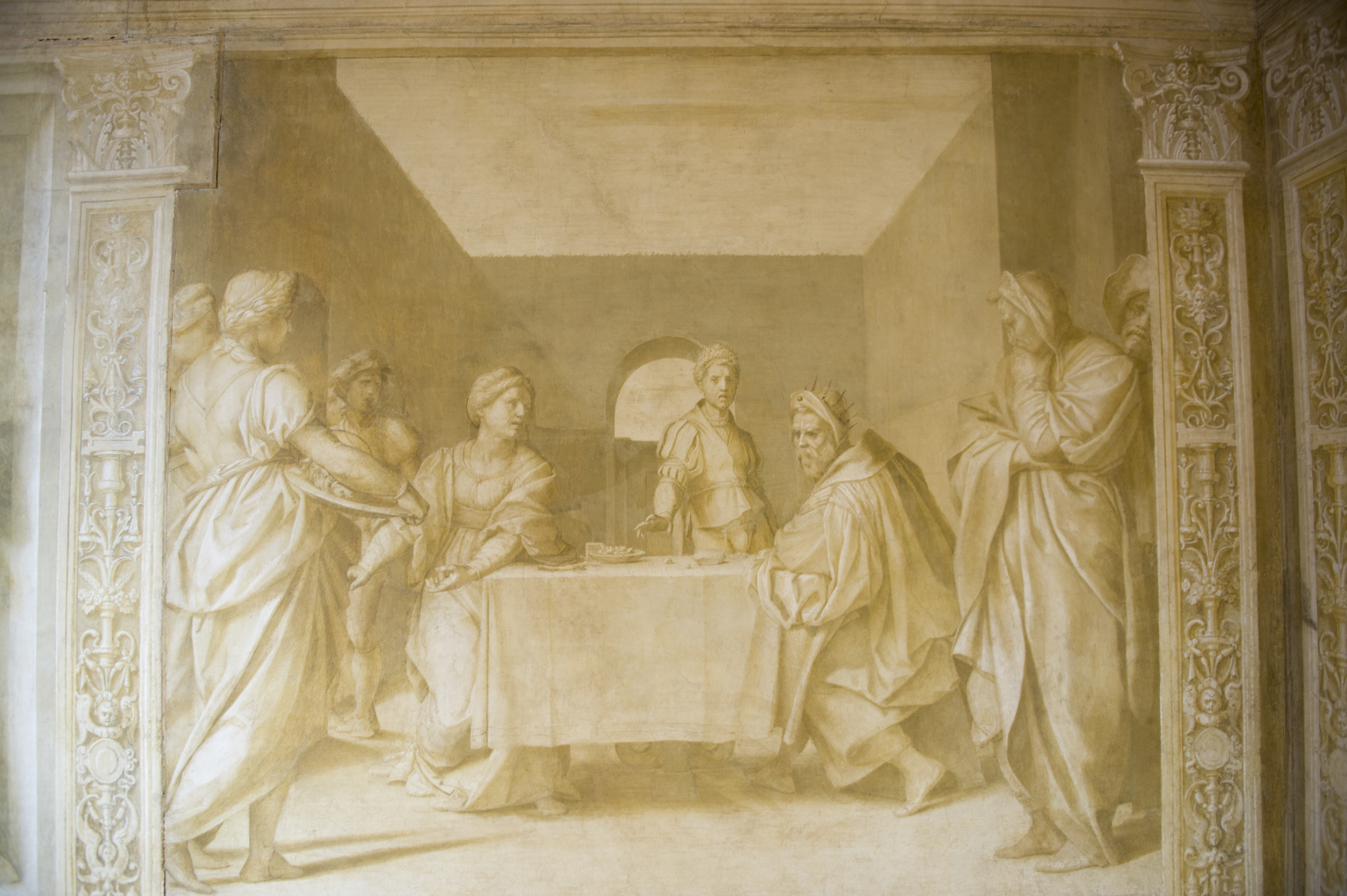 "The Presentation of the Head of St. John the Baptist" by Andrea del Sarto